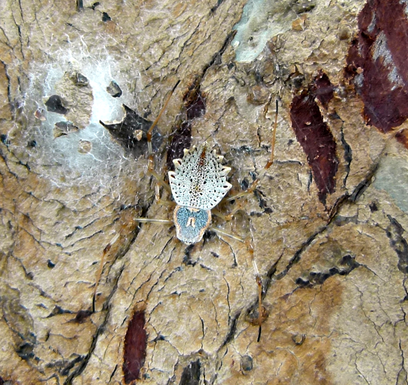 Herennia multipuncta (=H. ornatissima) on tree beside Kaveri river